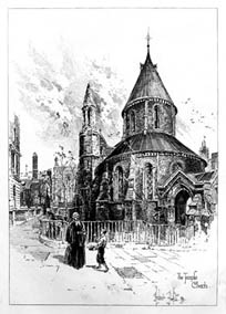 Herbert Railton's illustration of the Temple Church